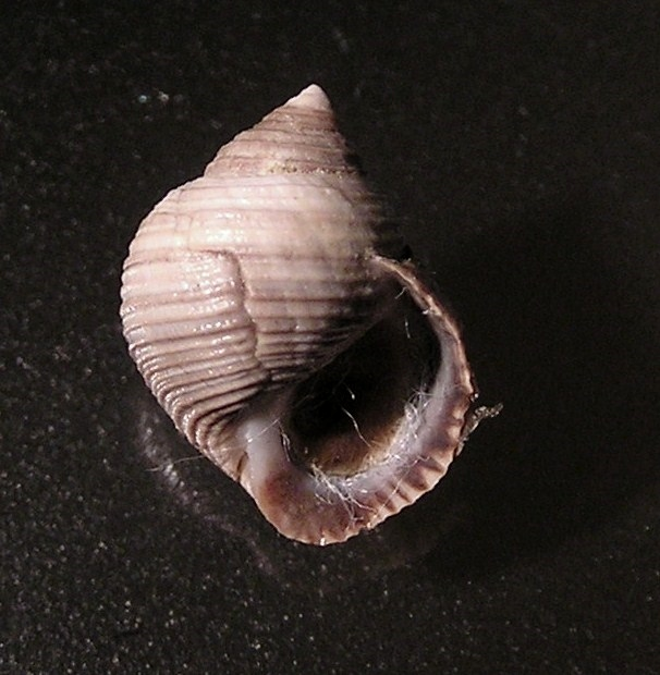 Littorina saxatilis (Olivi, 1792), the rough periwinkle from the family Littorinidae; France